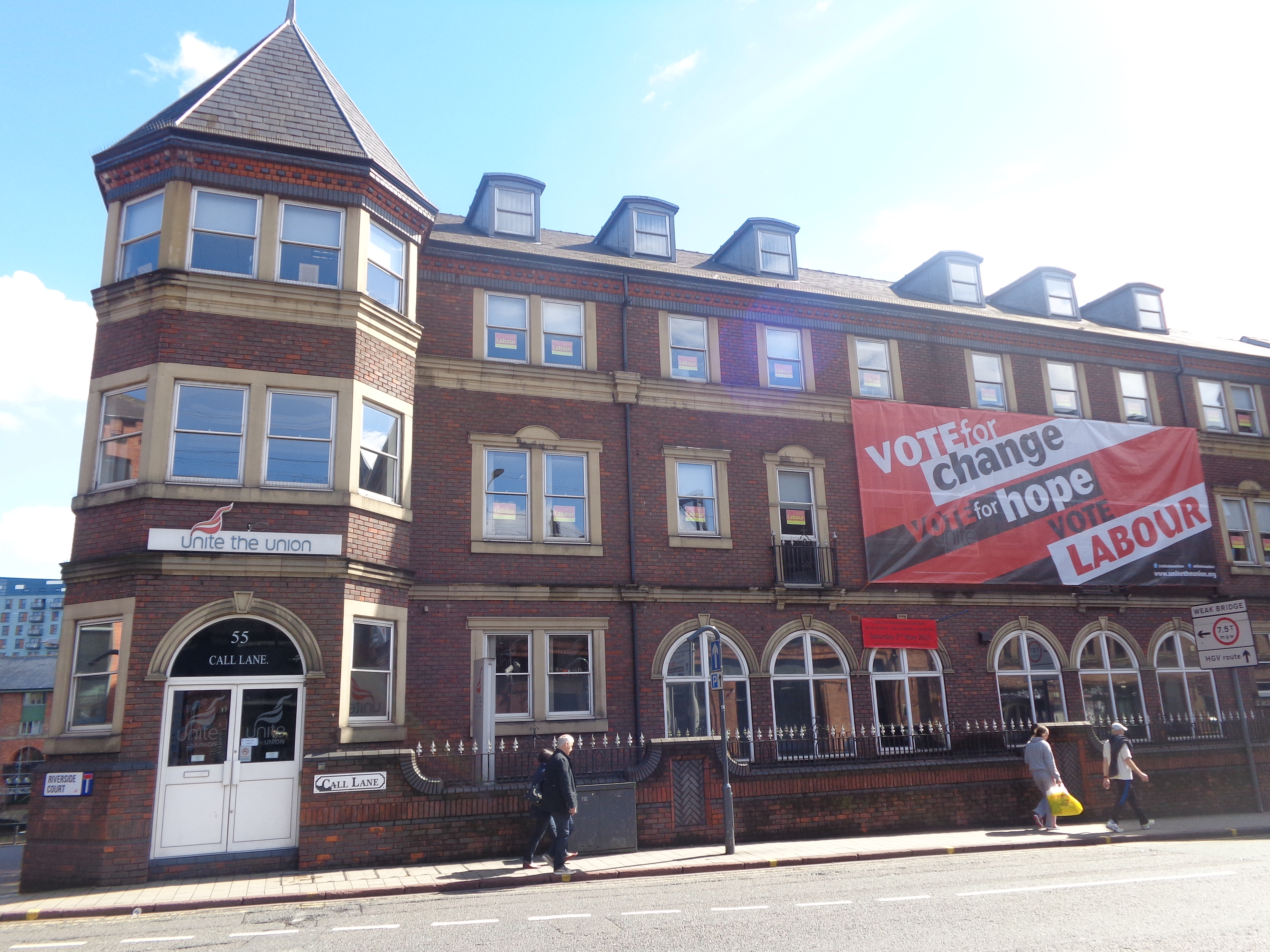 Unite the Union decked out for the 2015 General Election showing their allegiances to the Labour Party on Call Lane, Leeds, West Yorkshire. Taken on the afternoon of Sunday the 3rd of May 2015 (the election is on the 7th).